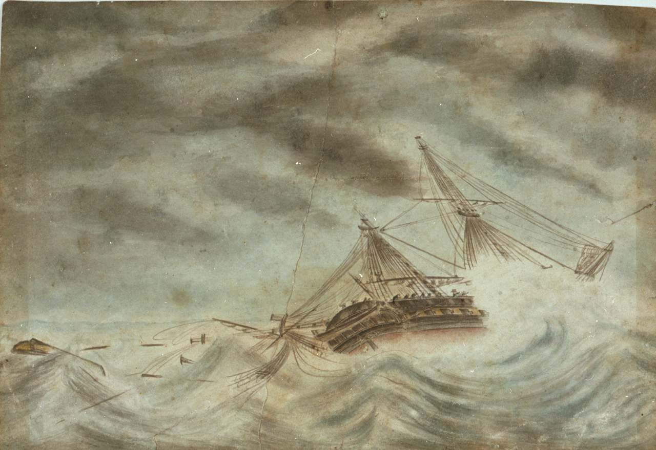 A view of His Majesty's Ship Thisbe, Charles Dudley Parker Esq. Commander at sea in a Hurricane on the 23rd August 1798 in Latitude 44: 00 N & Longd 44: 00 West, by A. Hodge Second Lieutenant